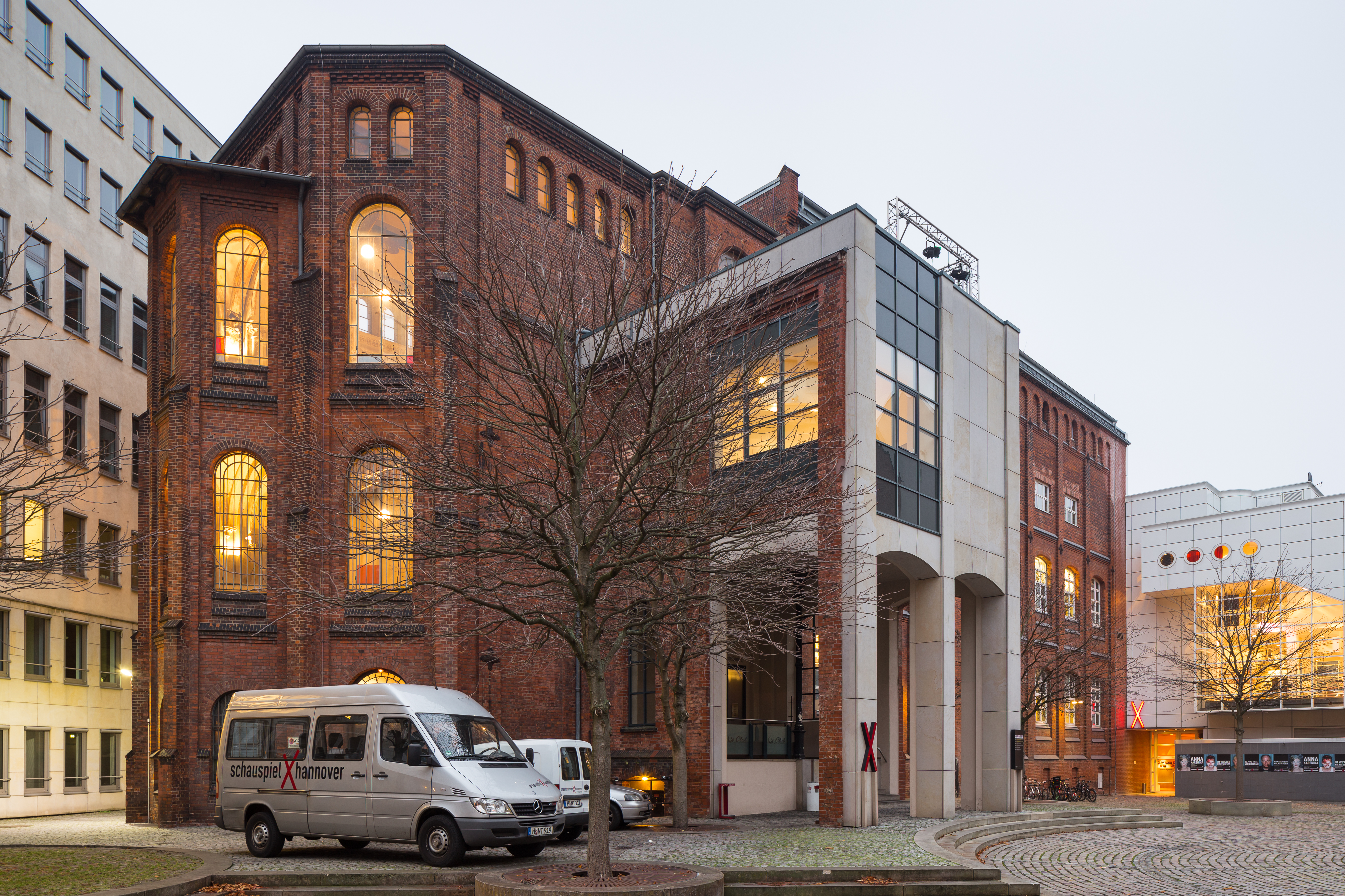 Rear house of the playhouse Hannover, the former "Cumberlandsche Galerie", located at Prinzenstrasse no. 9 in Hannover, district Mitte, Germany.